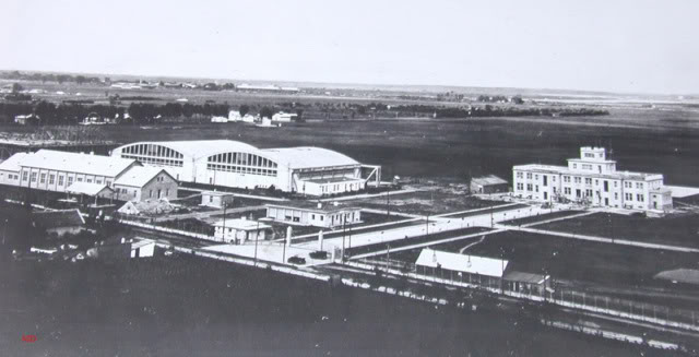 Airport of Dojno polje, the Belgrade's first international airport. Was opened on 25 March 1927 on the territory of today's Novi Beograd.